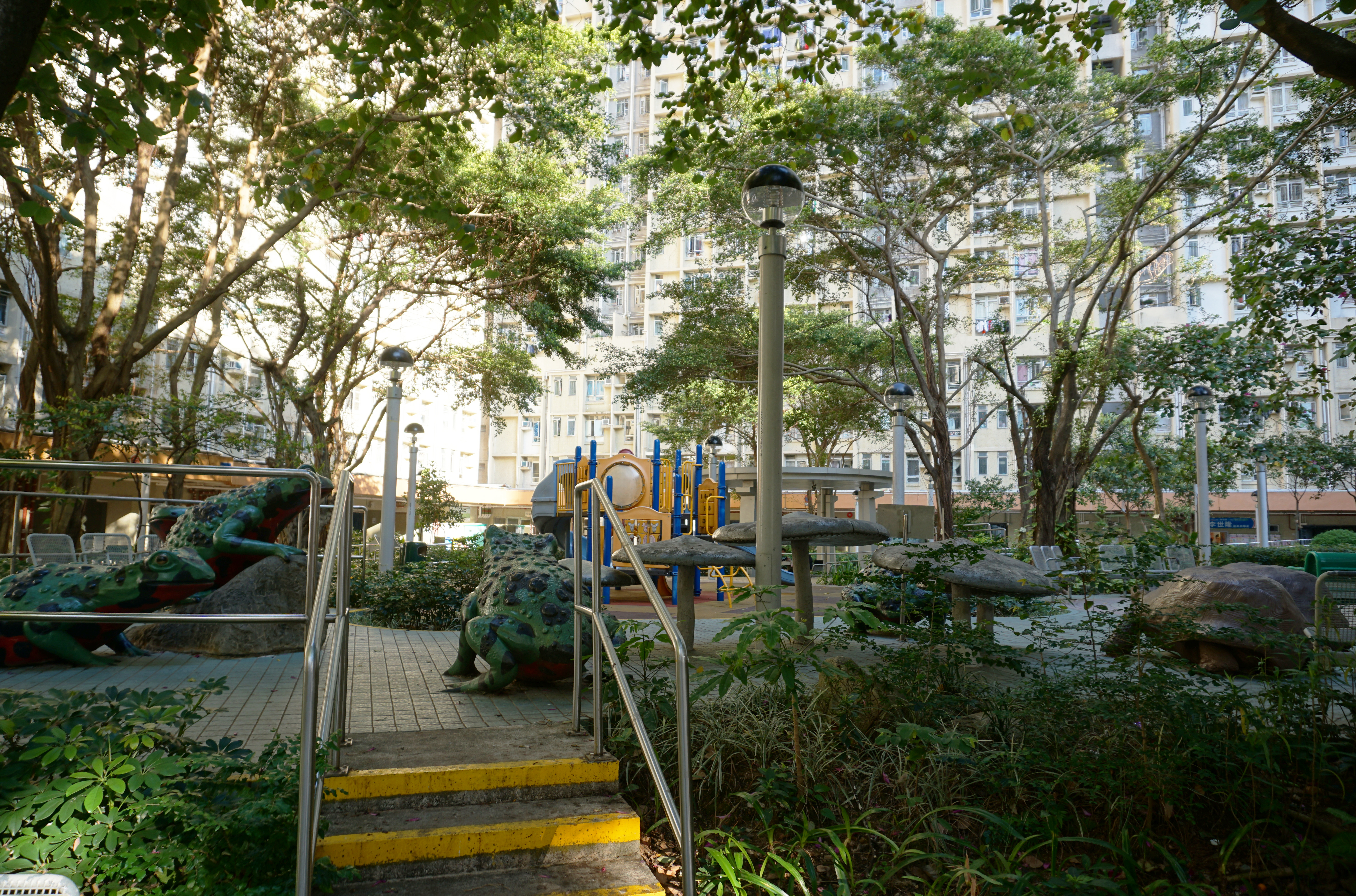 Shek Yam Estate in Shek Yam, Hong Kong.